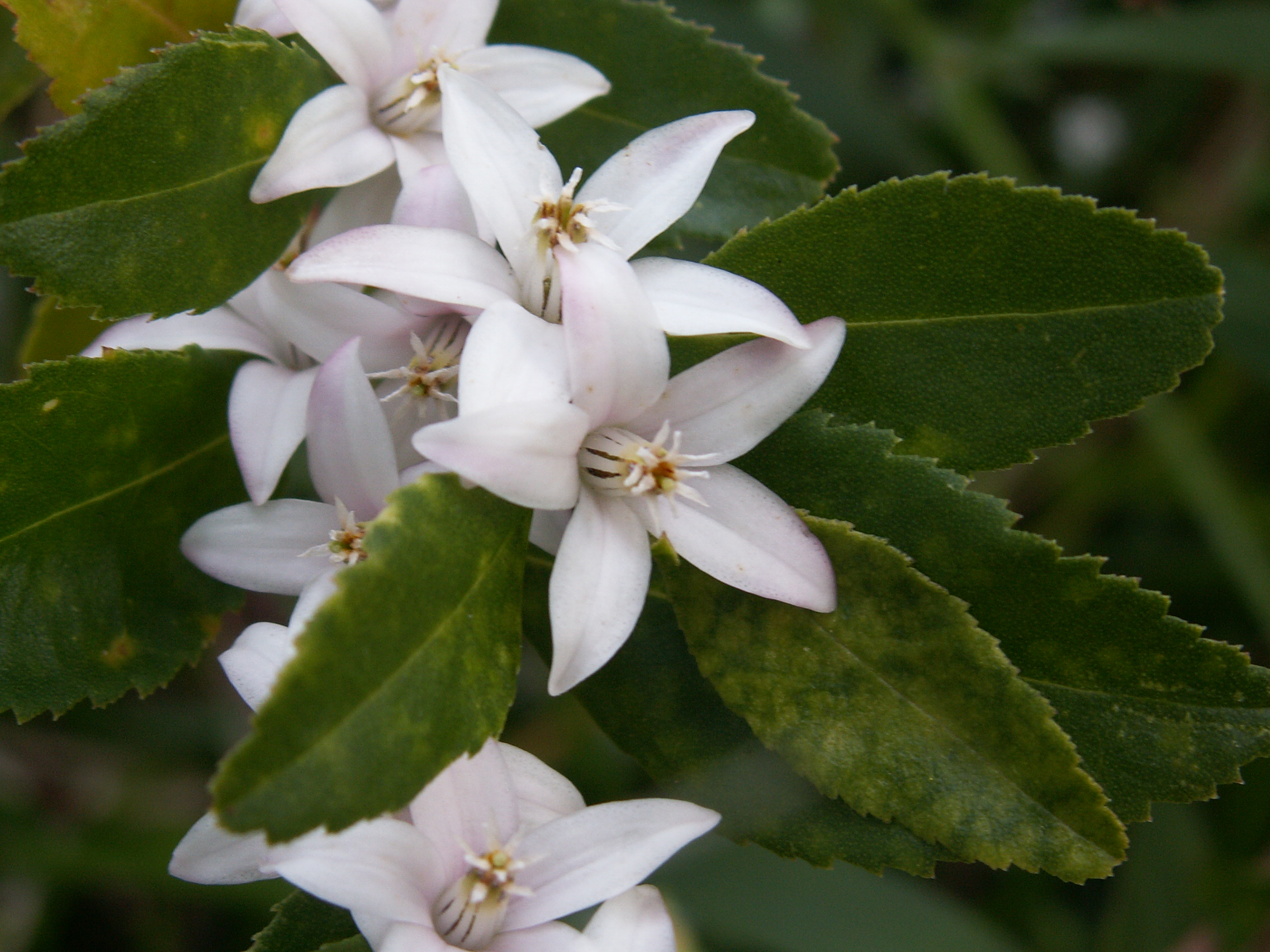 Near Walpole